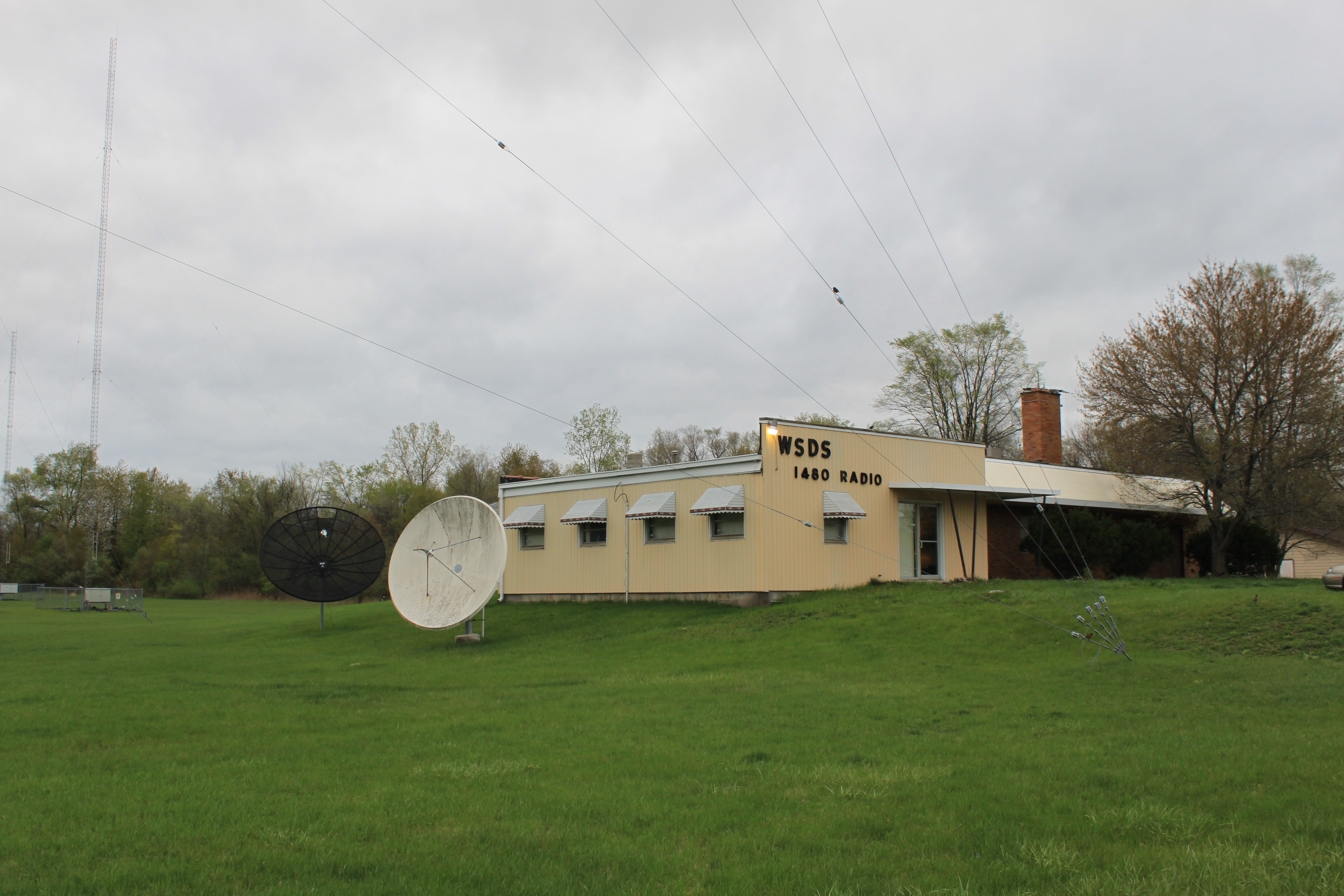 WSDS studio, 580 W. Clark Rd., Ypsilanti, MI 48196